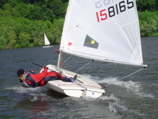 Gisa Wortberg Sailing a Laser Dinghy